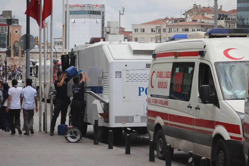 Turkish Police filling a TOMA with unknown chemical irritants